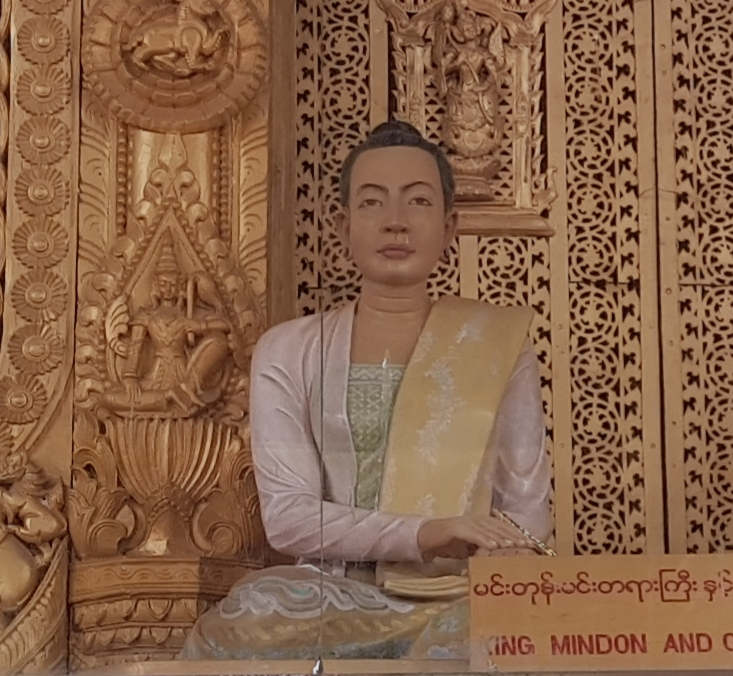 Statute of Chief queen Stakyar Dewi မြန်မာဘာသာ: မိဖုရား​ခေါင်ကြီး စကြာ​ဒေဝီ၏ရုပ်တု